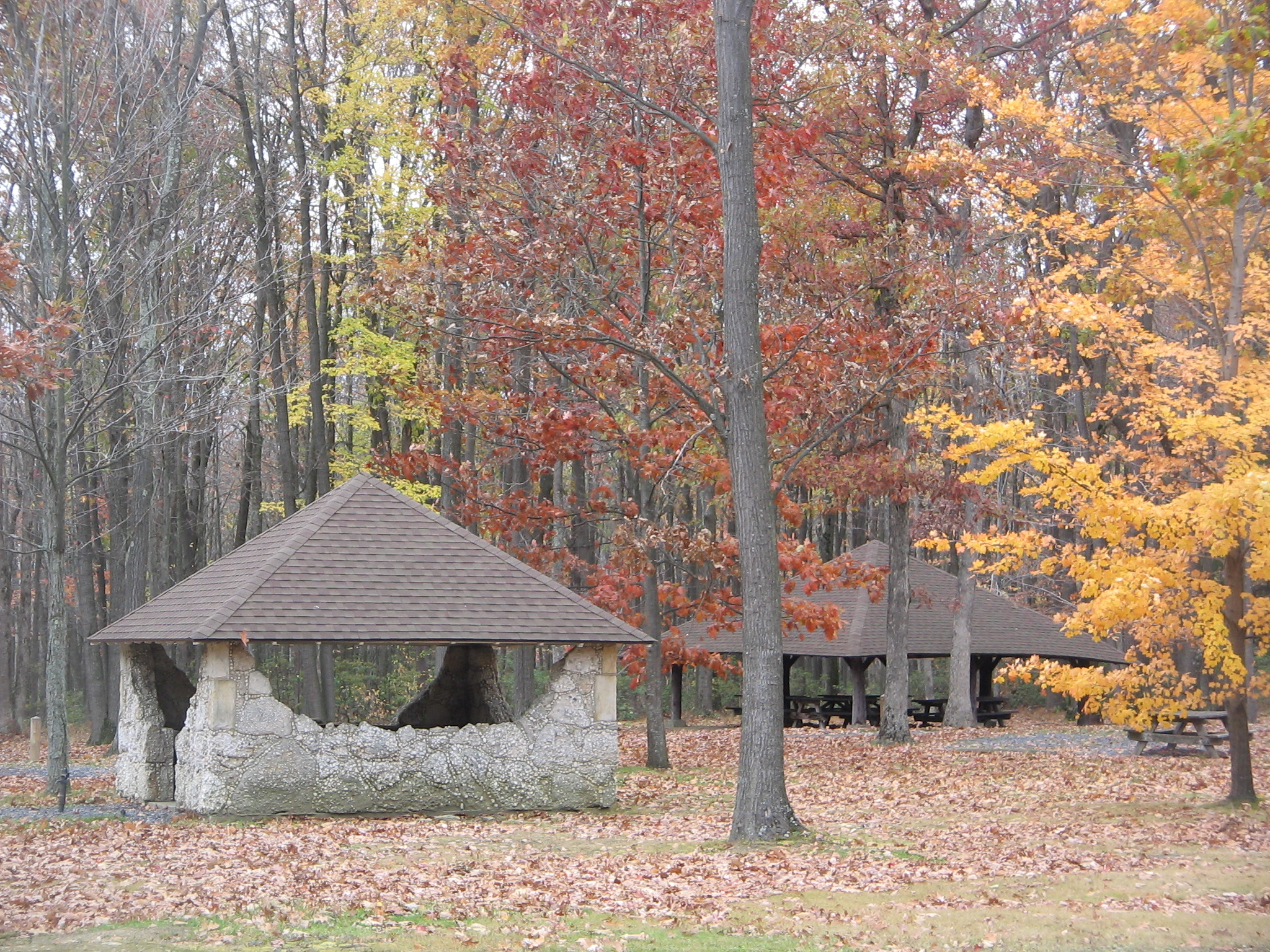 CCC-built Stone Pumphouse (left, now a picnic shelter) and Picnic Pavilion (right) at S.B. Elliott State Park in Pine Township, Clearfield County, Pennsylvania, USA are listed on the National Register of Historic Places.